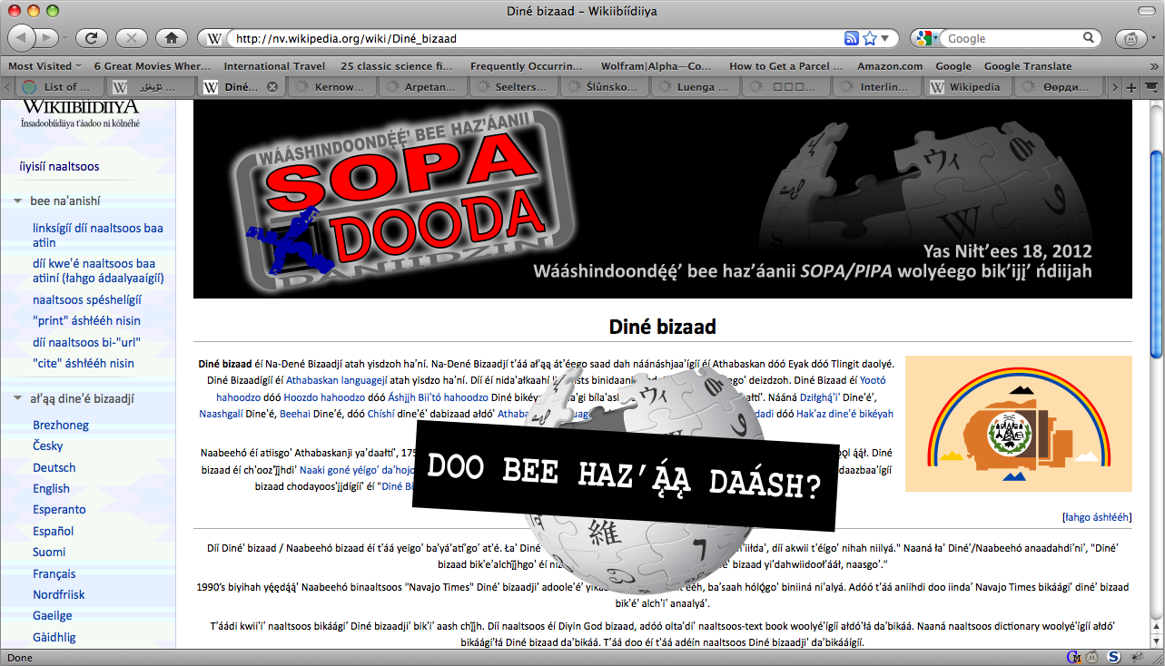 Screenshot of Navajo Wikipedia article on 18 January 2012 during SOPA/PIPA protests. Navajo Wikipedia had a "soft blackout," in which articles were accessible from their URLs, but were covered by a scrolling anti-SOPA/PIPA logo.